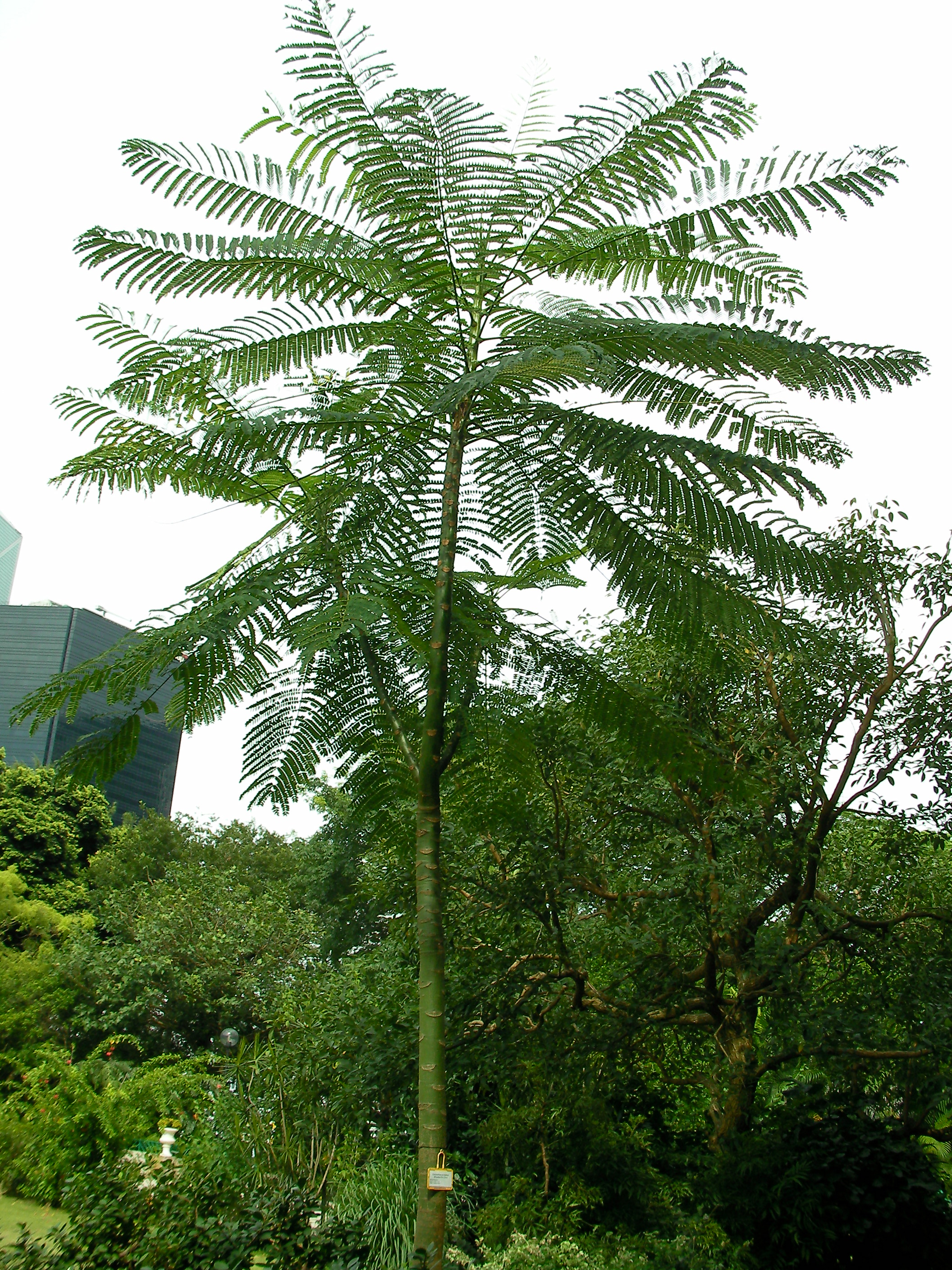 Schizolobium parahybum taken in Hong Kong Zoological and Botanical Gardens